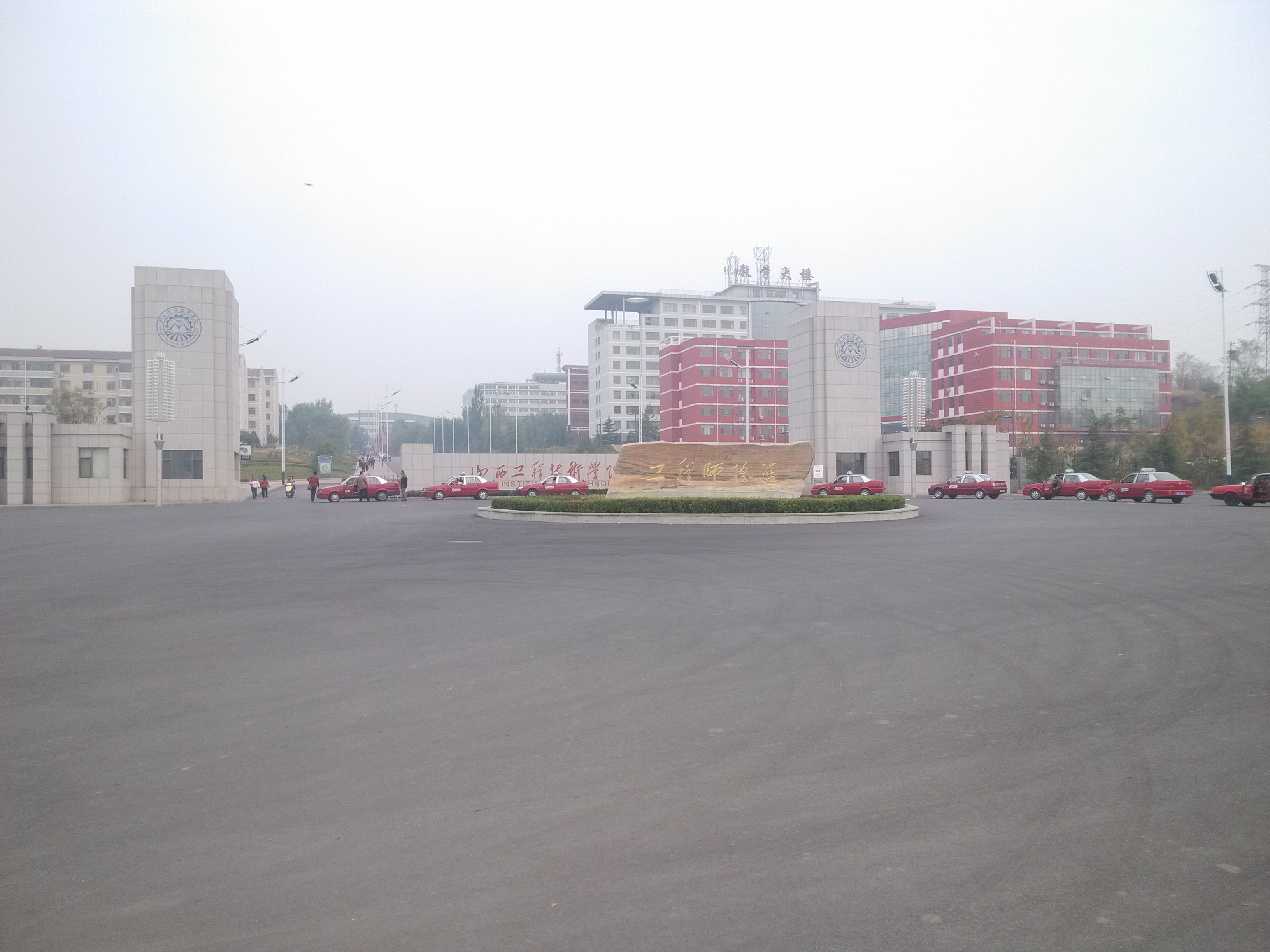 Shanxi Institute of Technology.